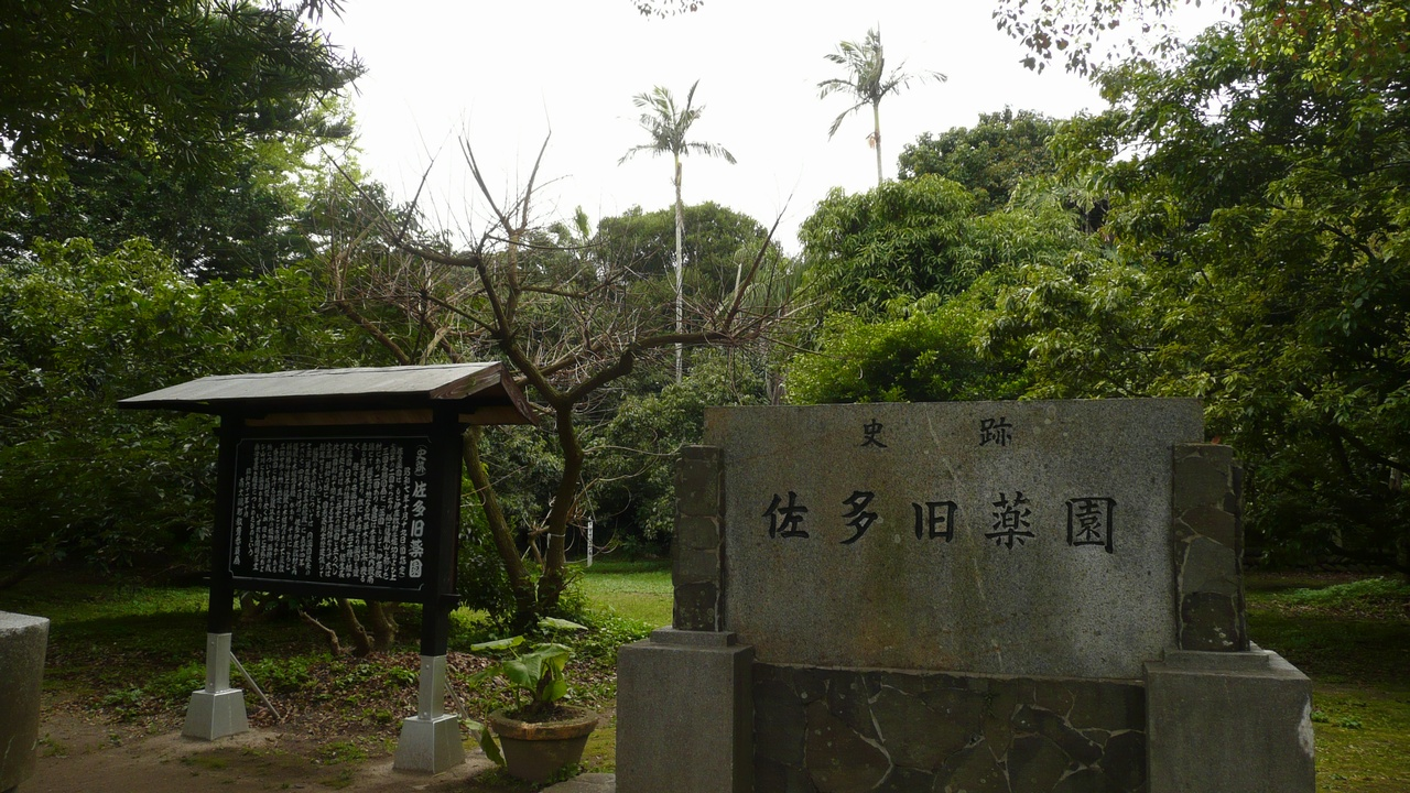 Former Sata Medicinal Garden (Minamiosumi Town, Kagoshima, Japan)